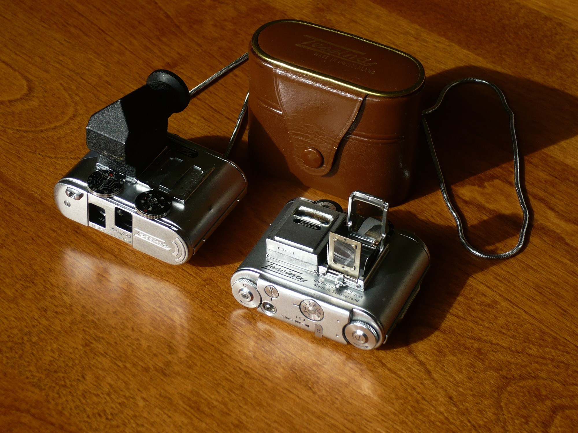 Tessina TLR with case,pentaprism, finder and chain